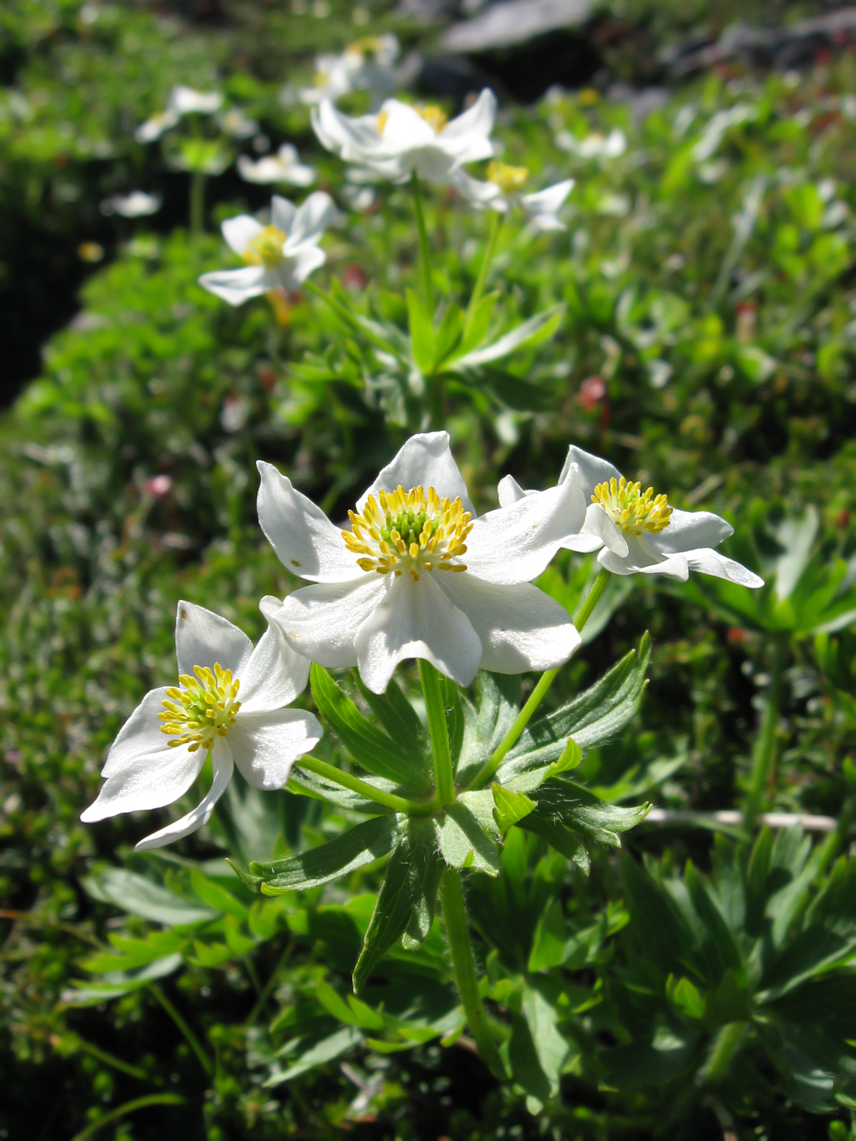 Anemone narcissiflora